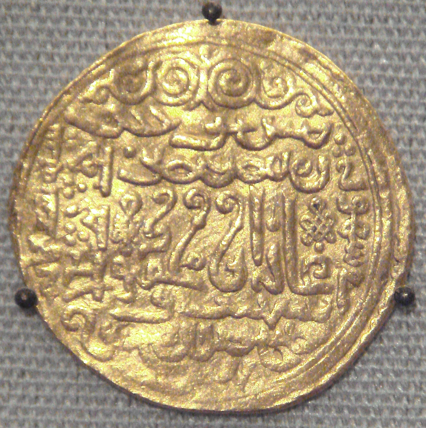 Mongol_coin_Shiraz_Iran_AH_700_AD_1301